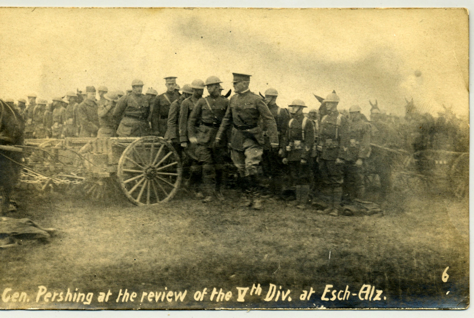 US General Pershing at the review of the 5th Infantry Division in Esch-sur-Alzette, November 1918. This image was created with Picasa.